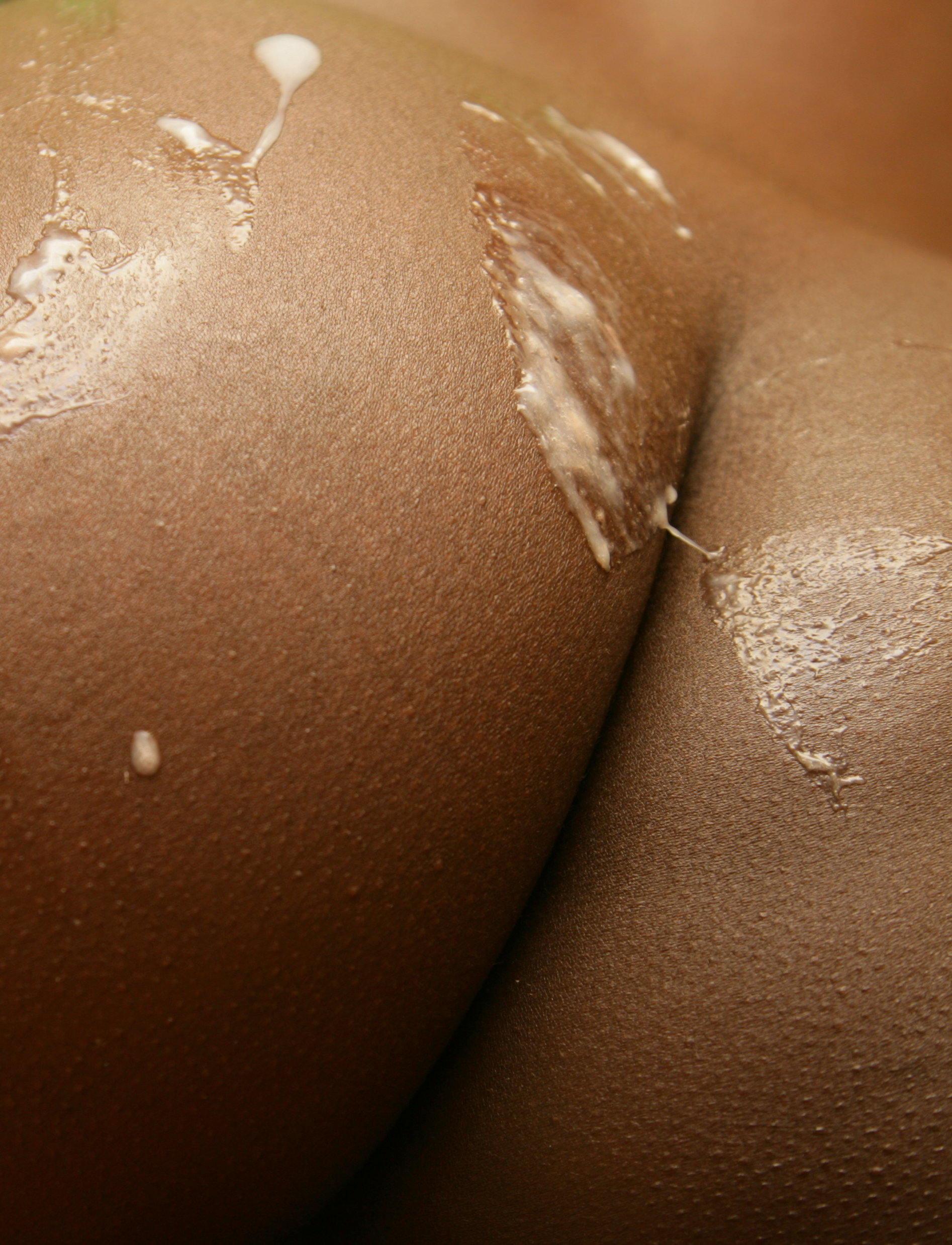 Semen on female buttocks. Photo by artist Peter Klashorst